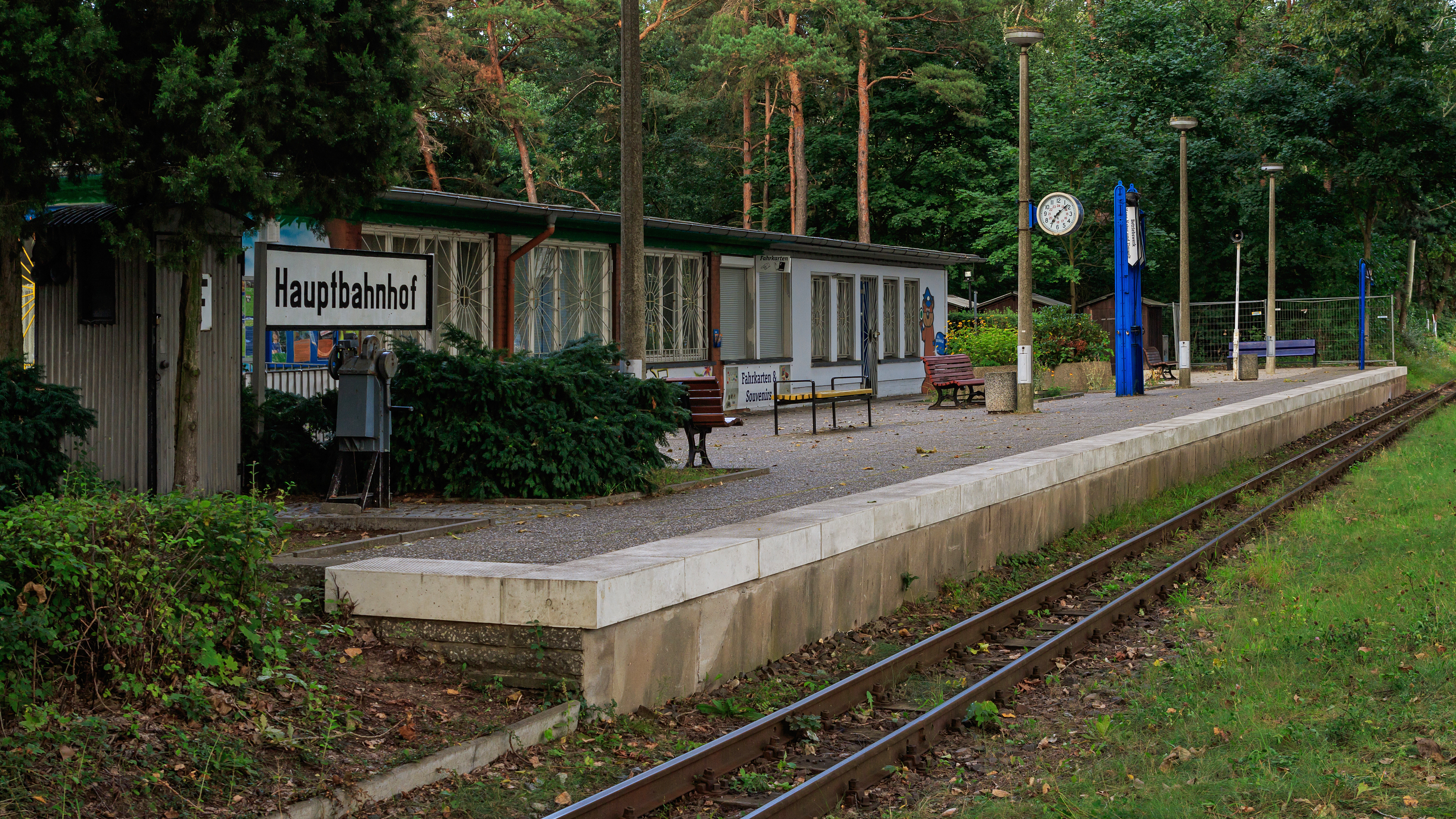 Terminus of Wuhlheide park railway in Berlin (Germany)